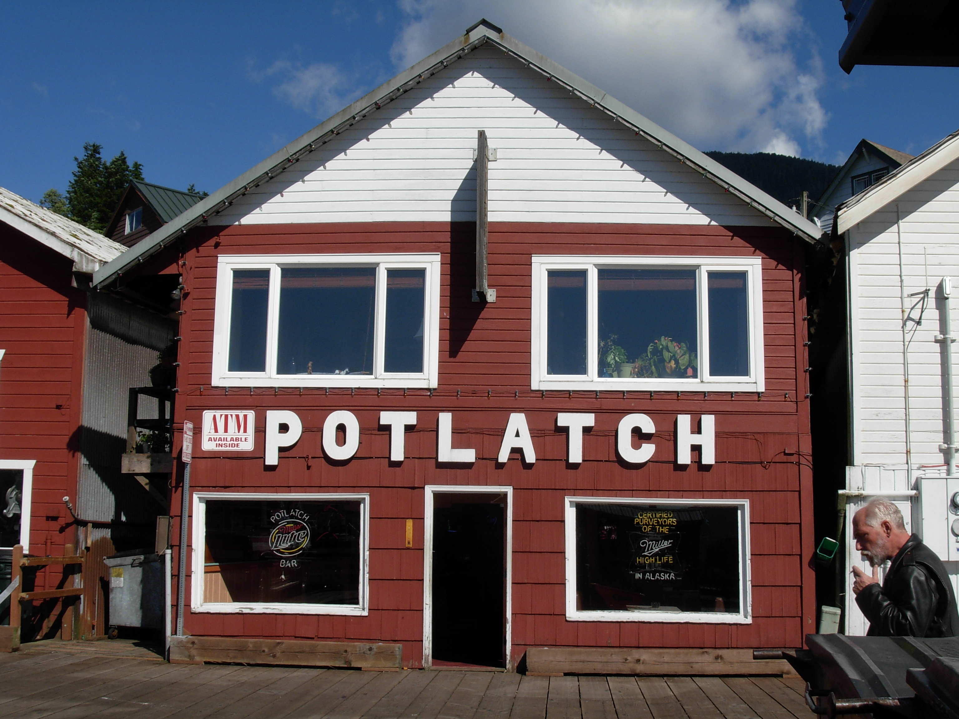 A local place, not much frequented by tourists